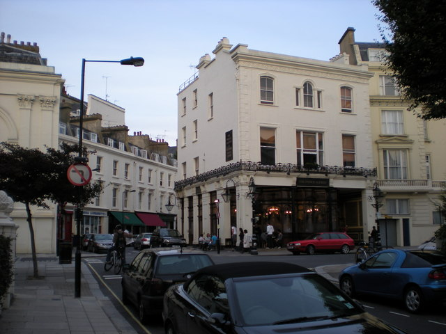 The Prince Alfred public house This is one of the most original public houses in Maida Vale, having all its snug bars still intact. It was modernised a little recently and the old stable area was turned into a dining room but most of the pub is in its original condition.